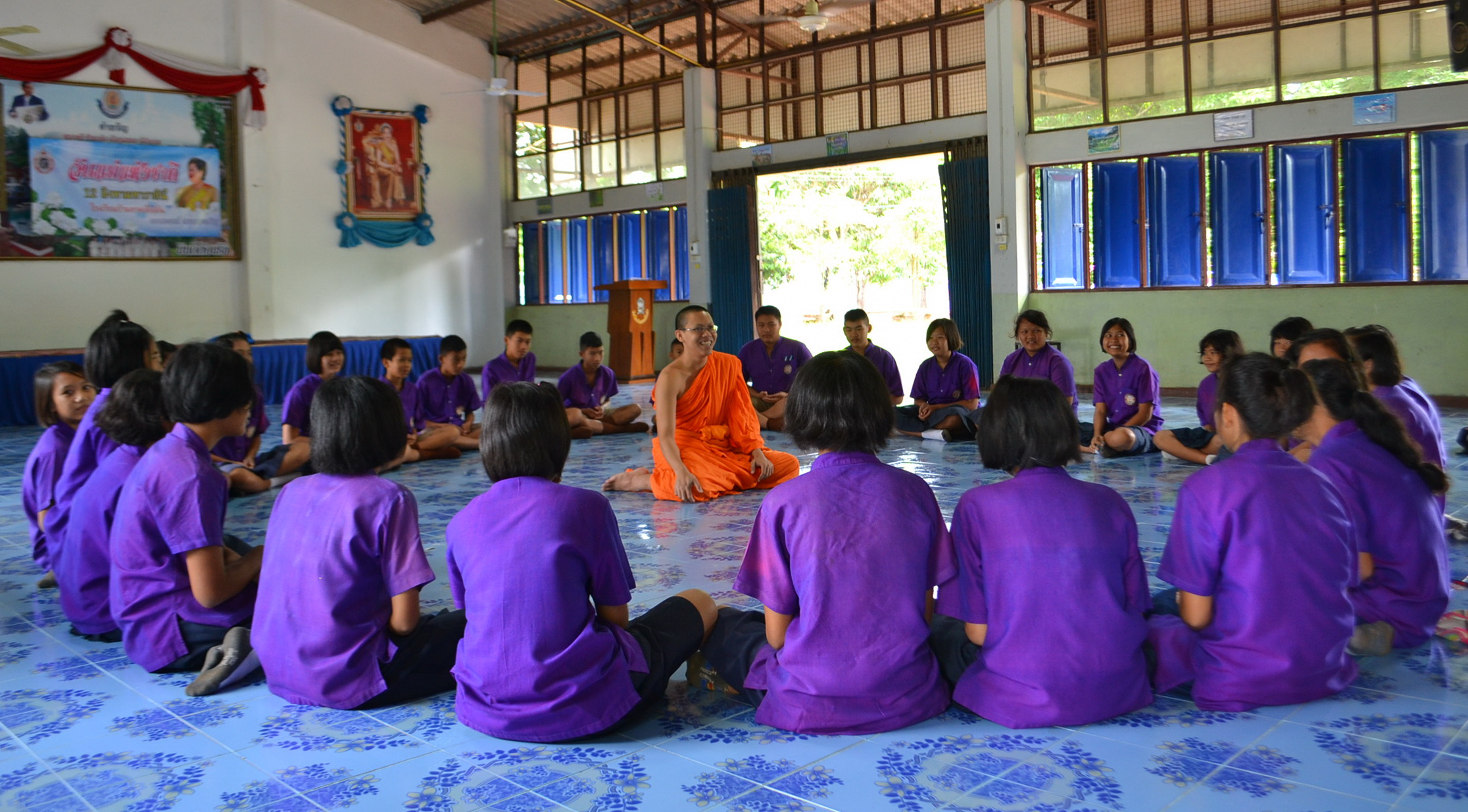 student in Ban Hat Suea Ten School in Ban Hat Suea Ten, Khung Taphao subdistrict, Mueang Uttaradit, Uttaradit Province, Thailand.